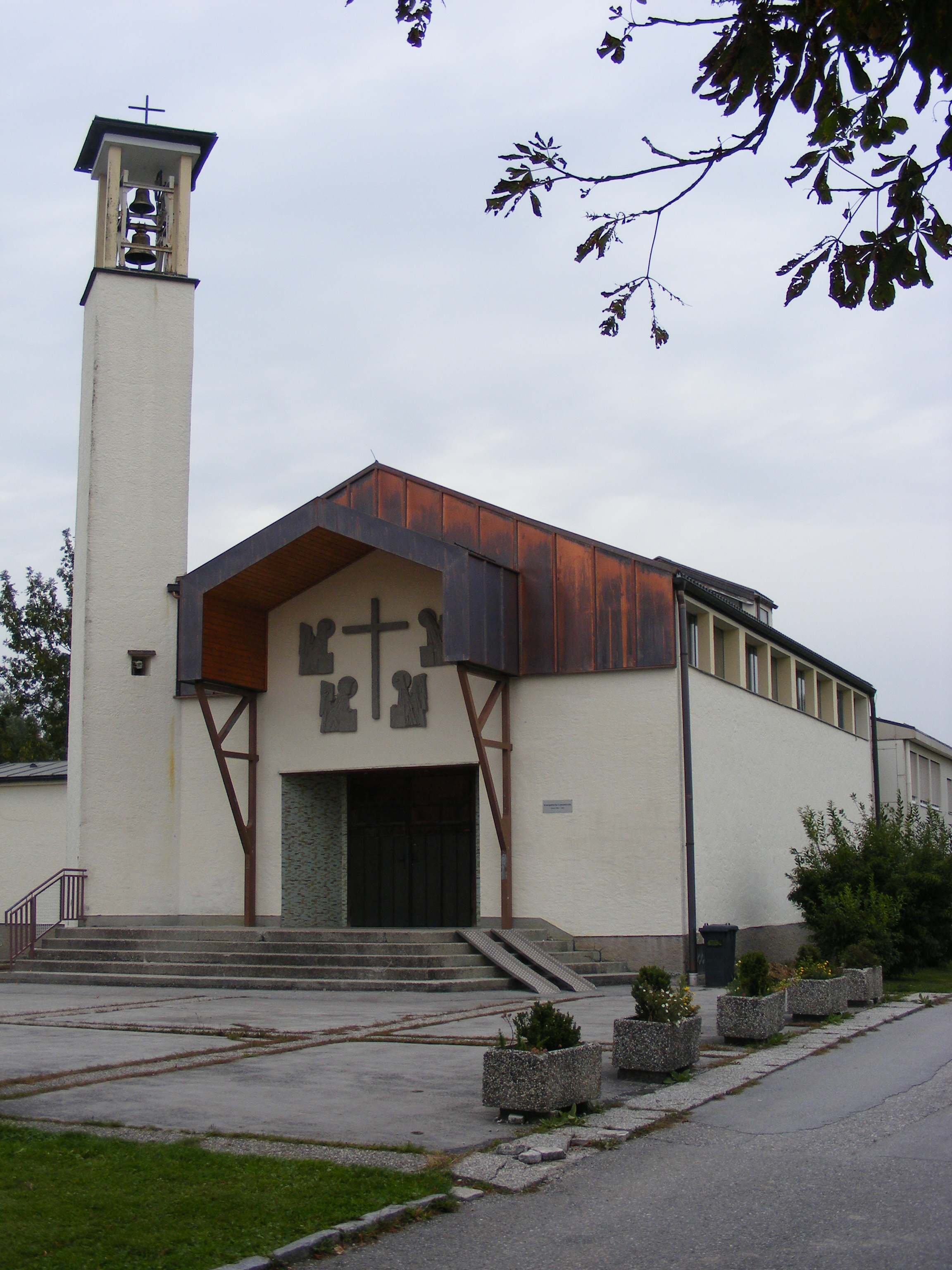 St. Luke Protestant church in Bürmoos, state of Salzburg, Austria; inaugurated on 20th October 1963